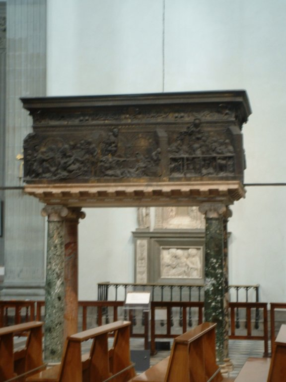 One of the Donatello pulpits in the Basilica di San Lorenzo di Firenze, Florenz.